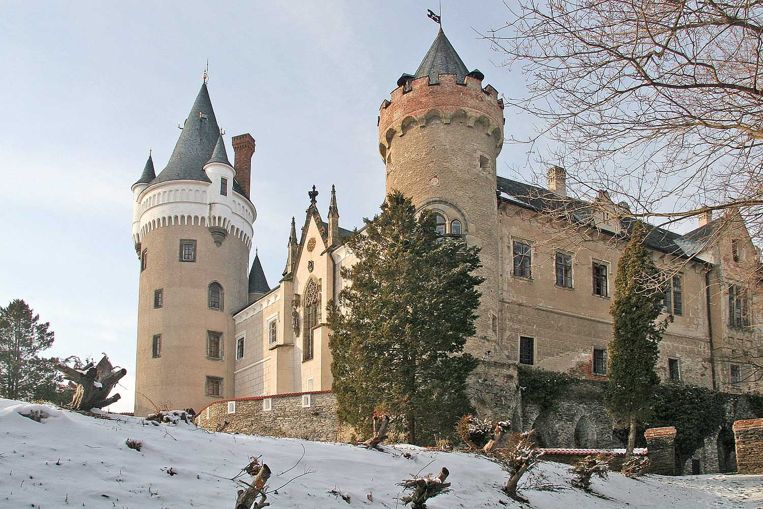 Castle Žleby, district Kutná Hora, Czech Republic autor: Prazak Date: 13. 3. 2006